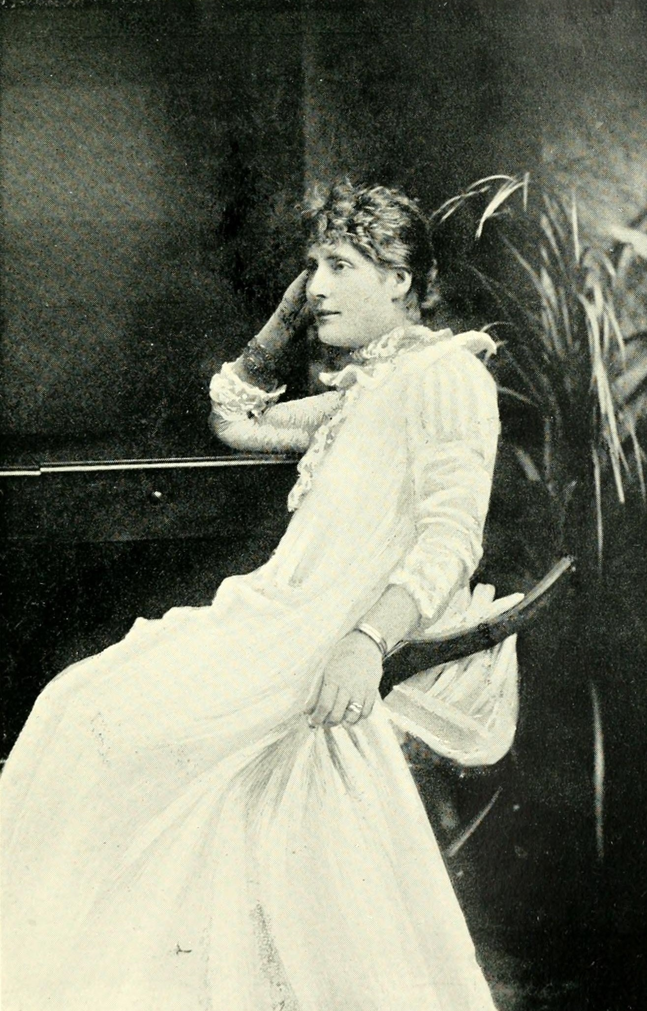 Portrait of Harriett Jay, Robert Williams Buchanan's sister-in-law.